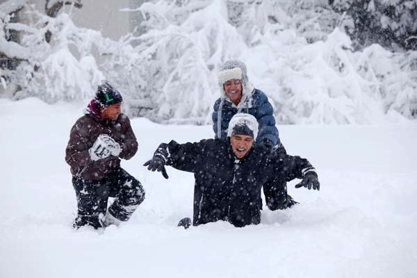 "Another snowstorm blanketed Washington for the second time in a few days. Because it was a Saturday, I hung around the White House thinking that the President might venture out in the snow with his daughters. Here they are playing in the Rose Garden in the midst of the storm." - Pete Souza